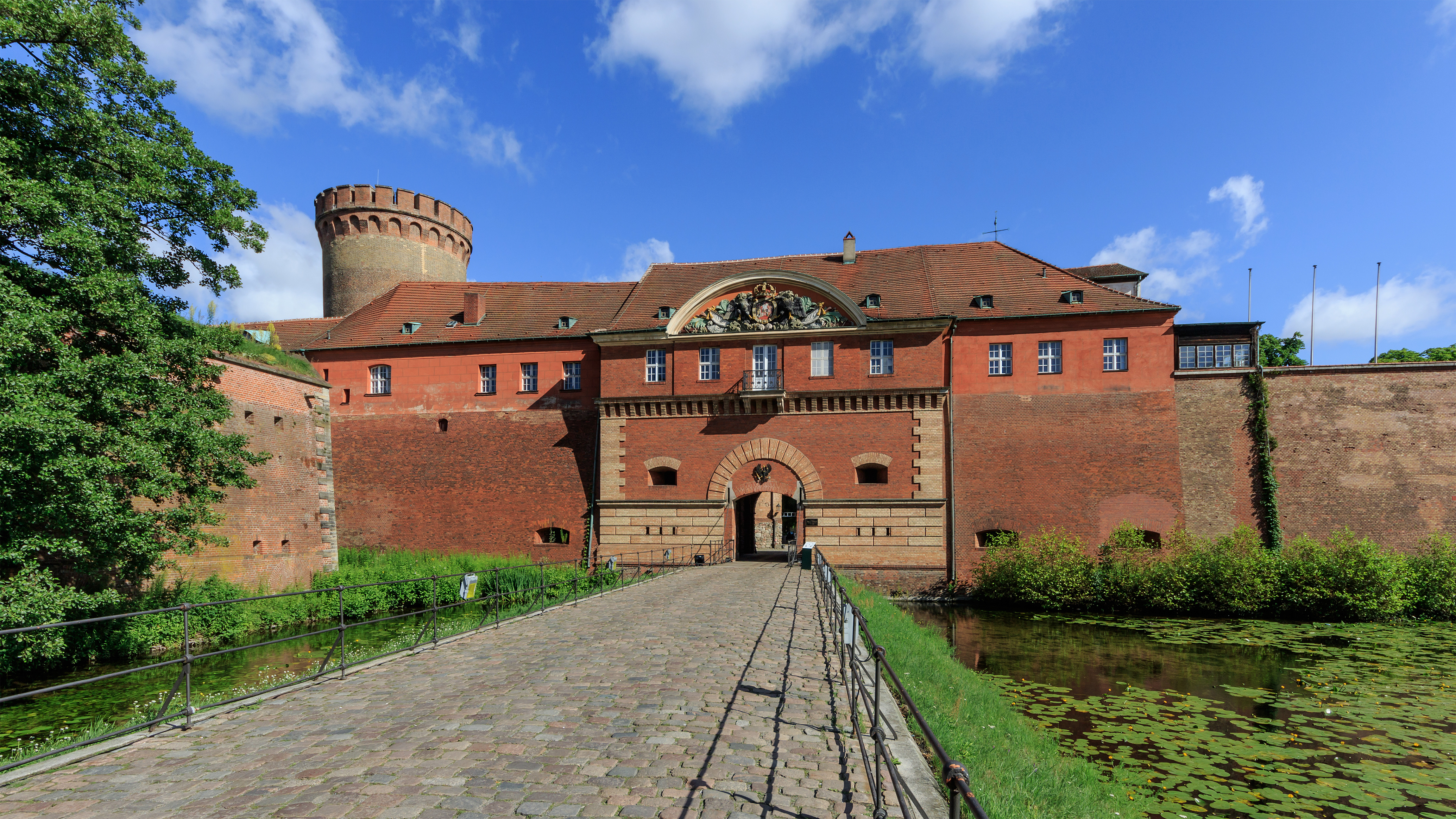 Spandau Citadel in Berlin (Germany)